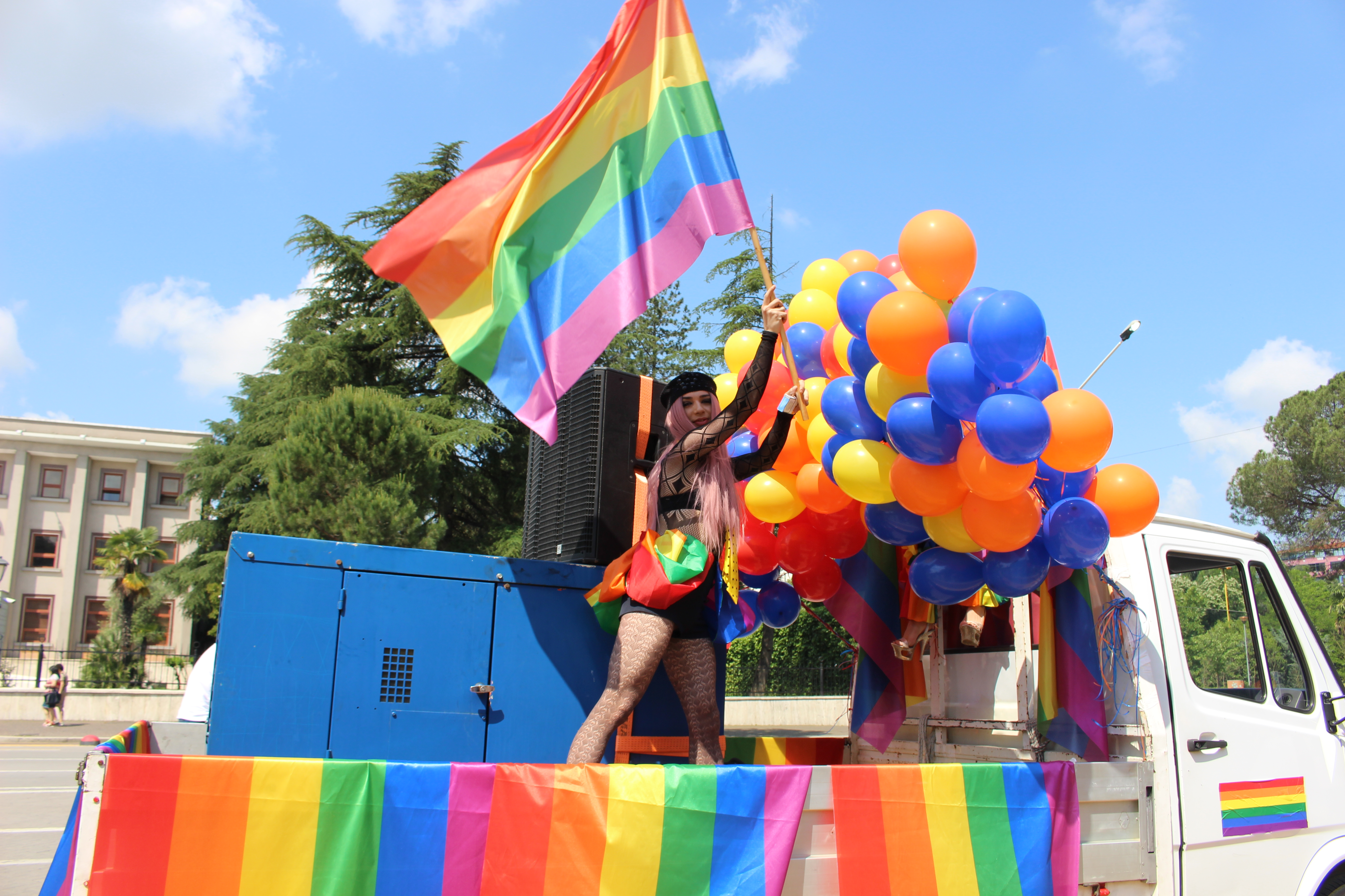 Transgender activist Lola during the 7th Gay Pride in Tirana.